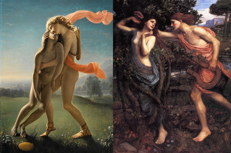 Apollo and Daphne by John William Waterhouse vs The Death of Hyacinth by Jean Broc.